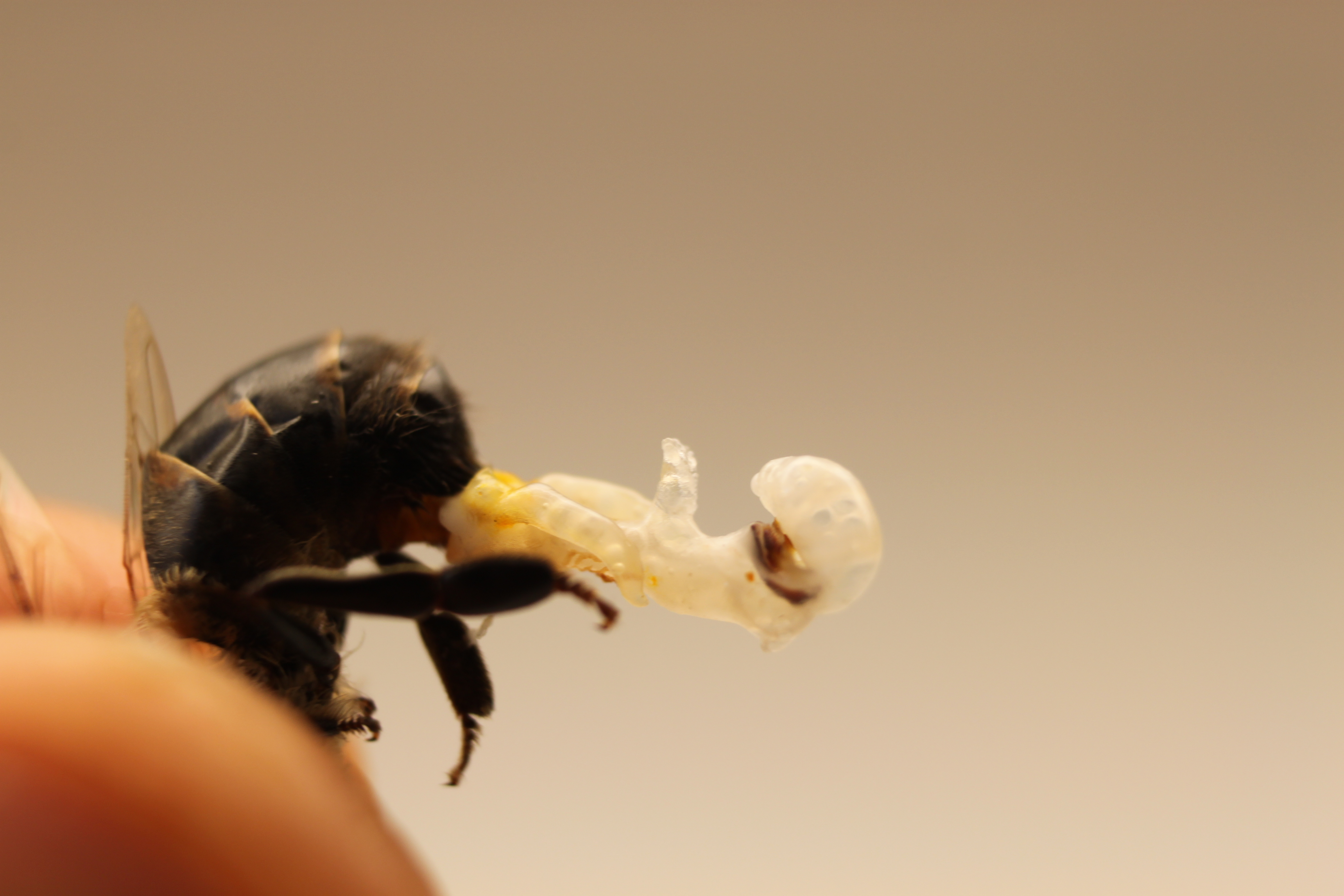 A male honey bee (drone) with the phallus everted